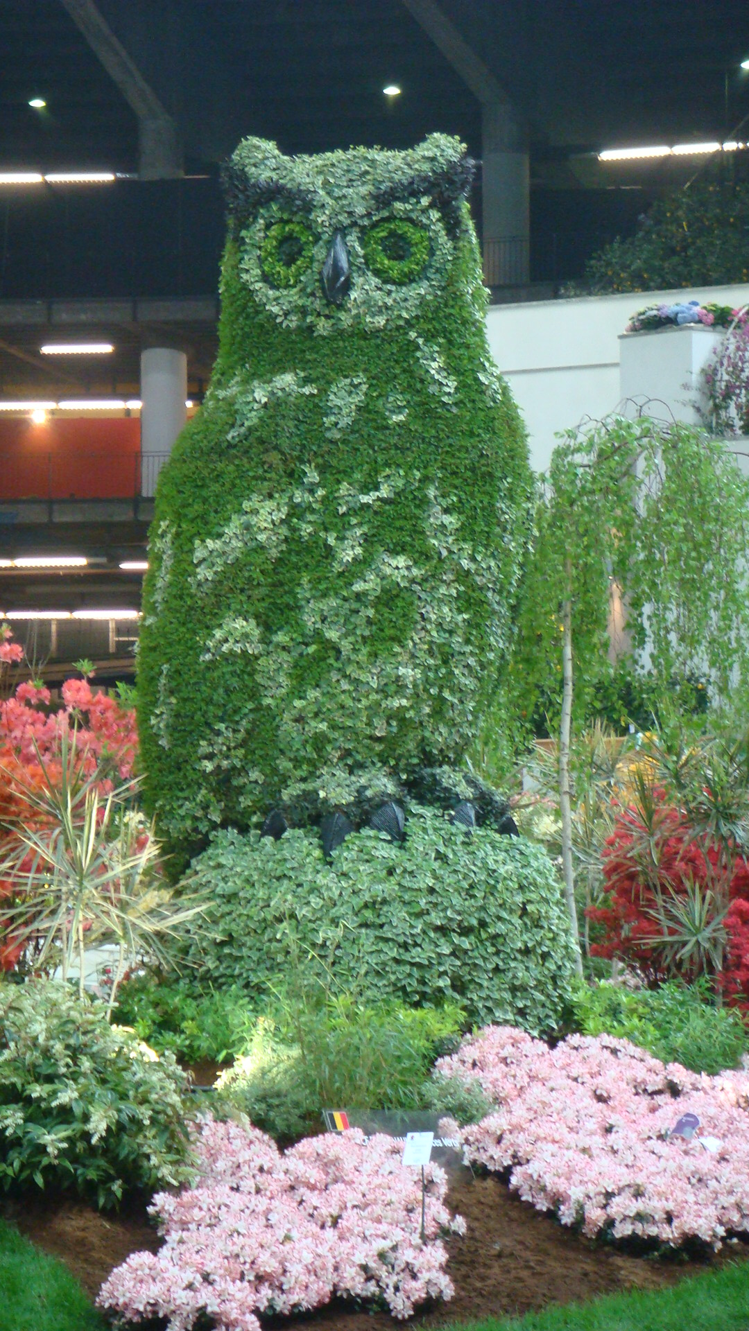 Genoa Euroflora 2011 Big Owl